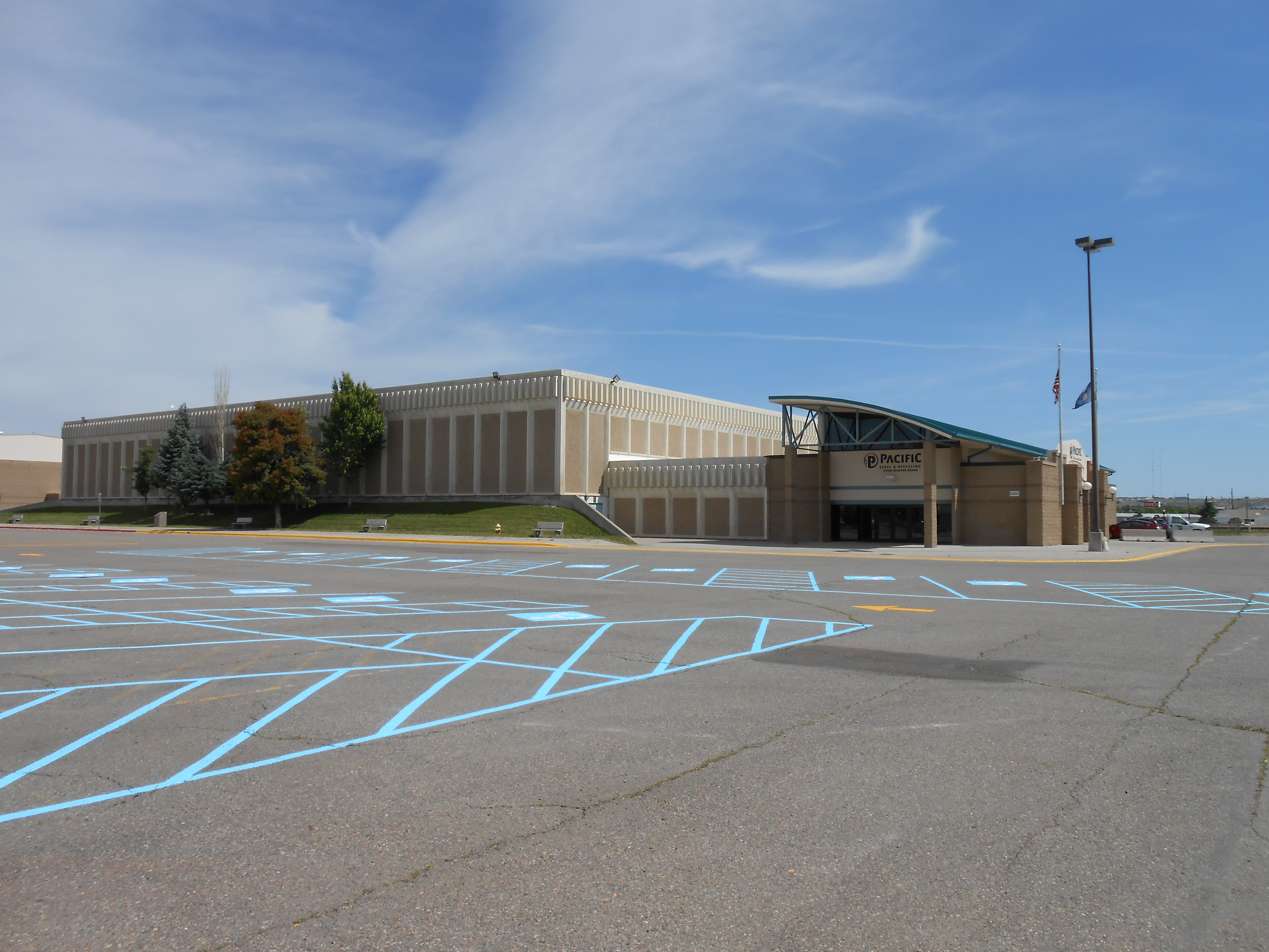 Four seasons arena at Fairgrounds at Great Falls, Montana; Montana Expo Park, home of the Montana State Fair.